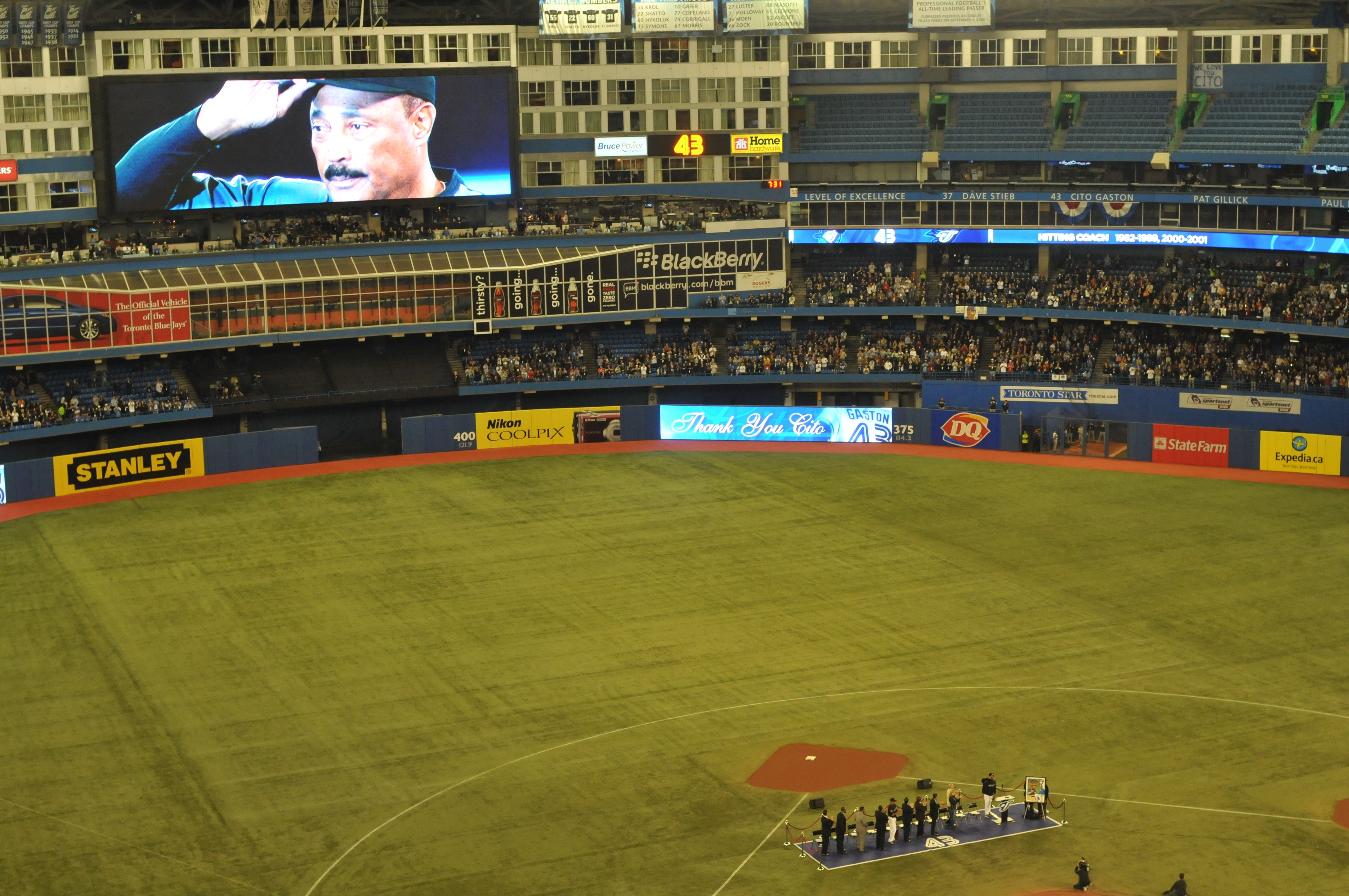 Cito Gaston's last home game before retirement